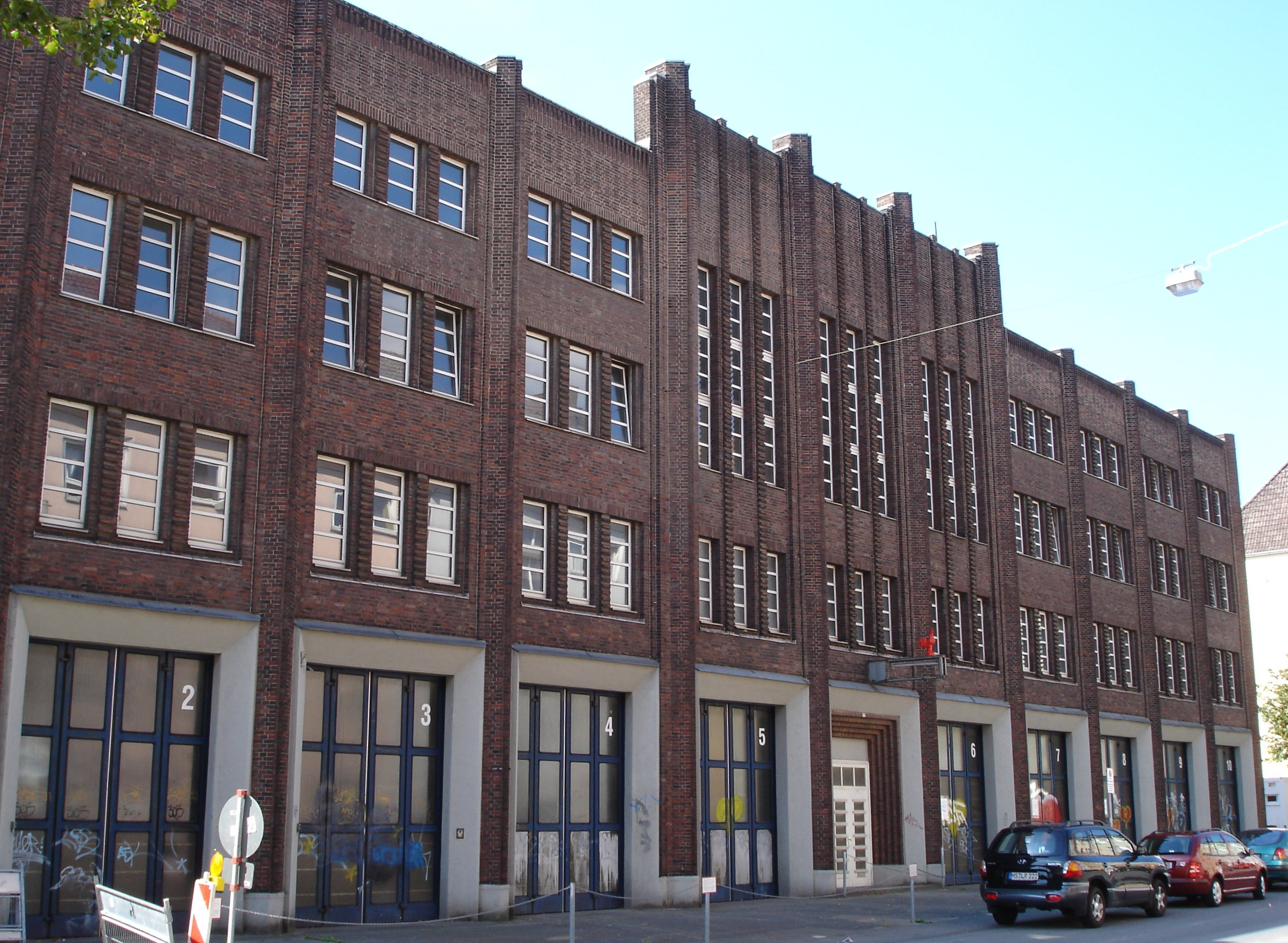 Frontside of the old fire station in Münster, Westphalia, Germany